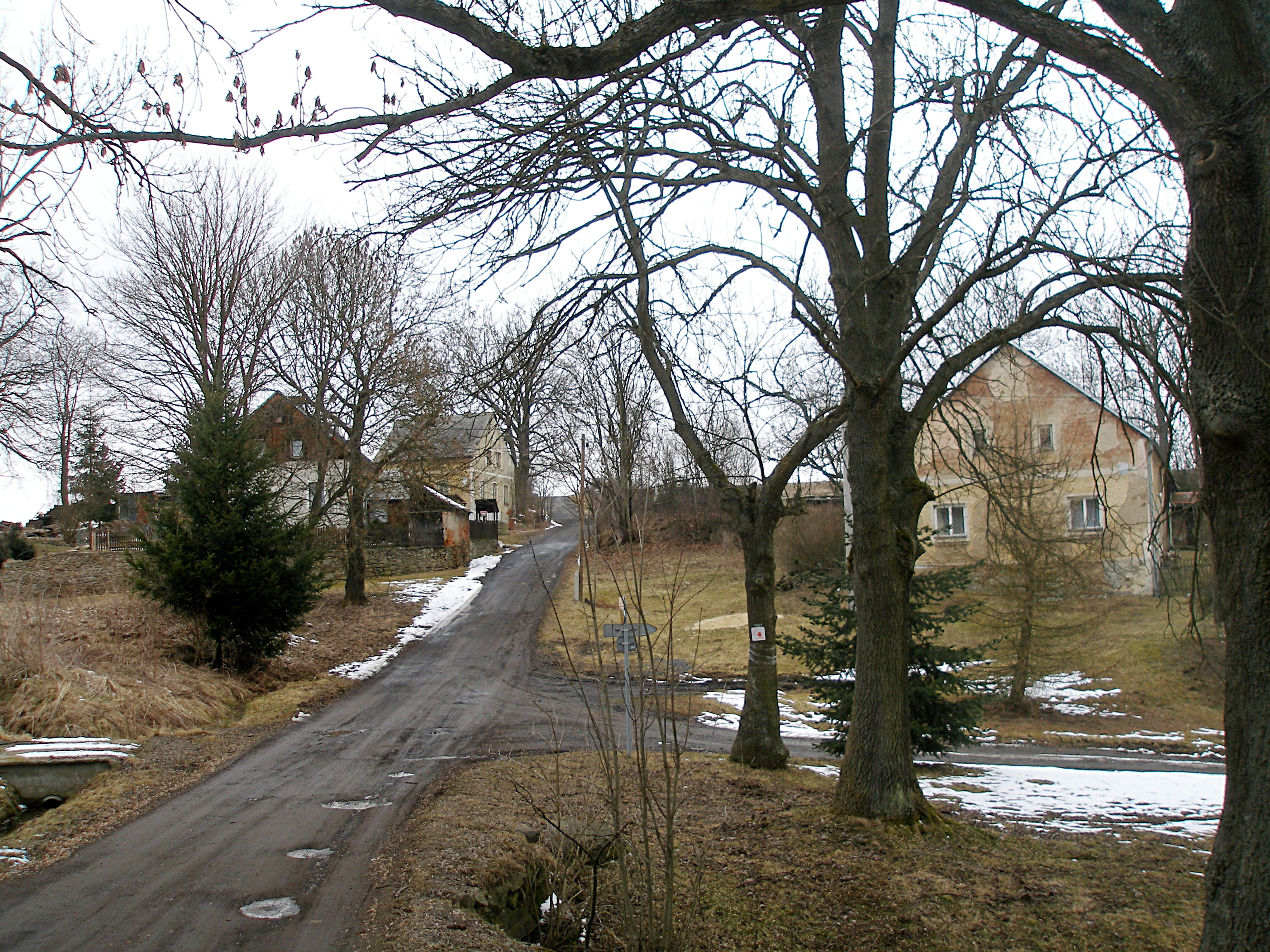 Polom (part of city Bochov) - the part of the square